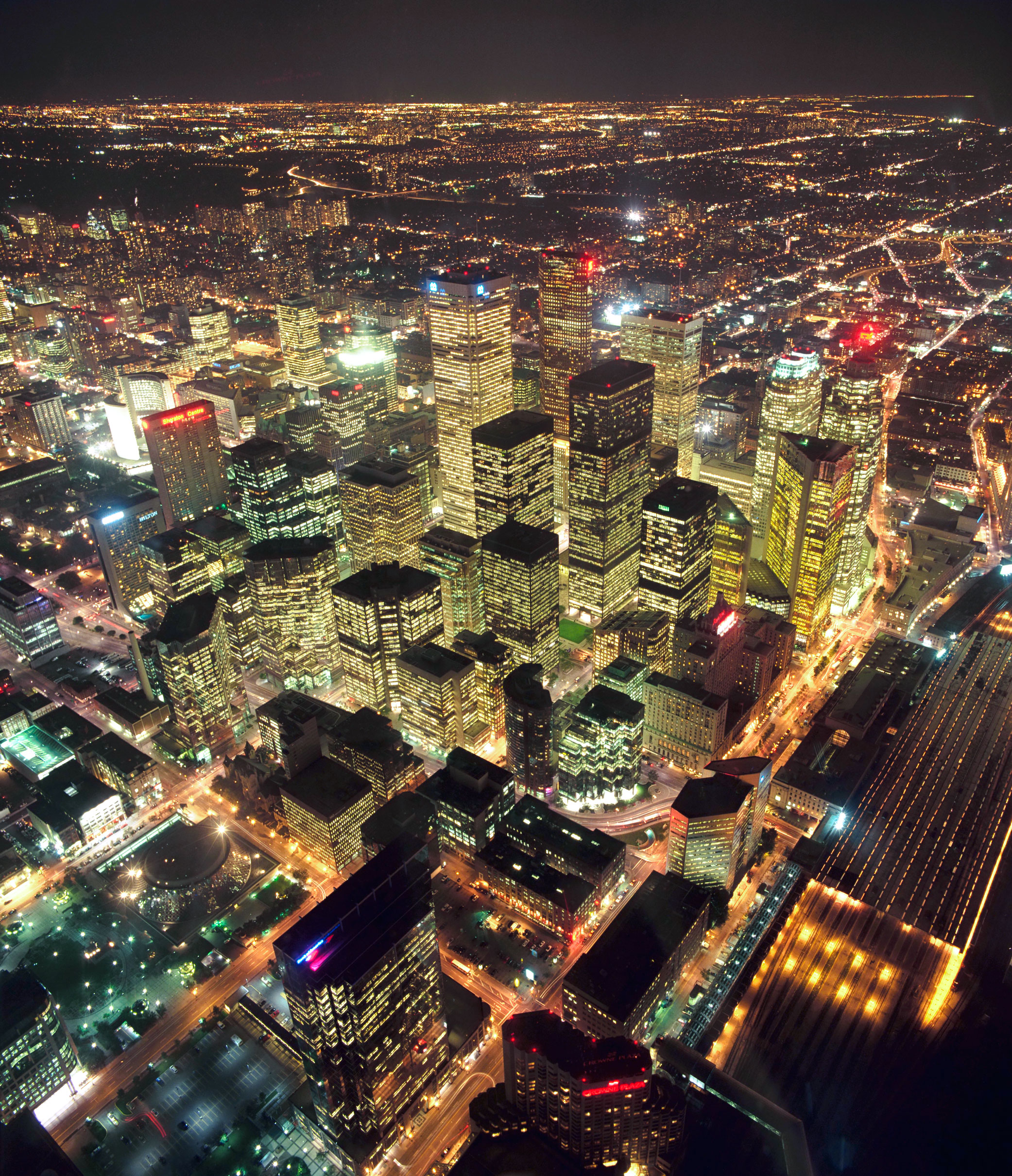 Toronto downtown at night from the CN Tower